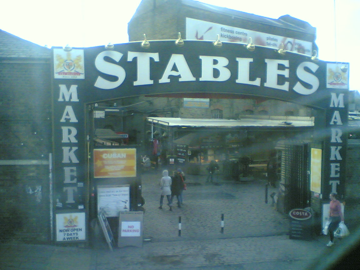 I took this photo (on 15th Feb 2005) and donate it to the public domain.